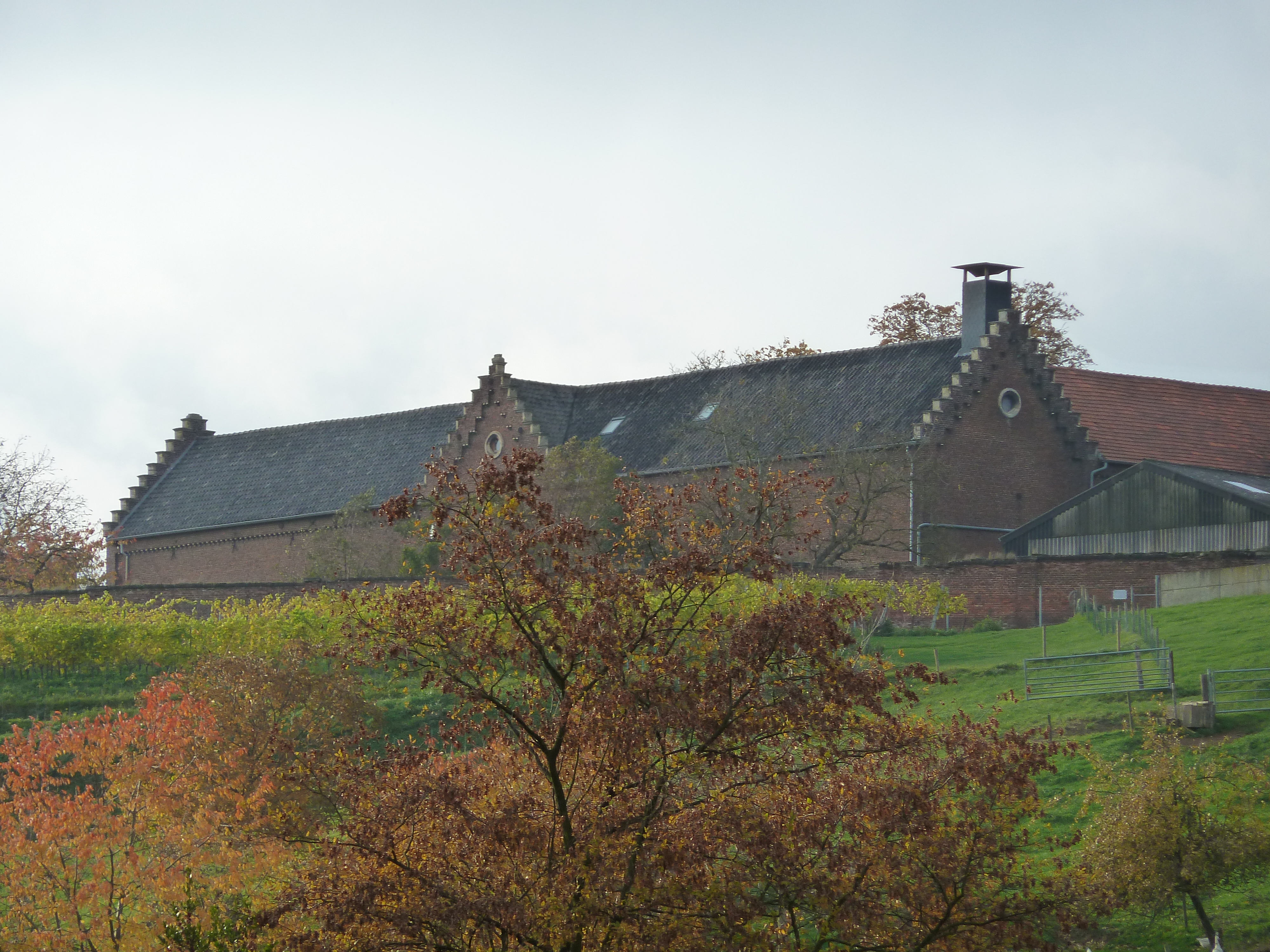 Wijngaardsberg 1, Ulestraten, Limburg, the Netherlands